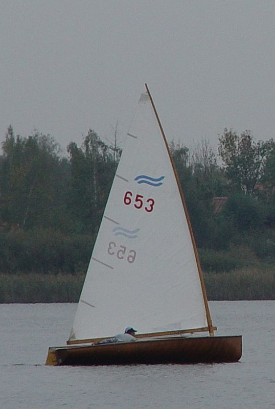 Older Finn class dinghy sailing, Kiekrz lake (Poland)